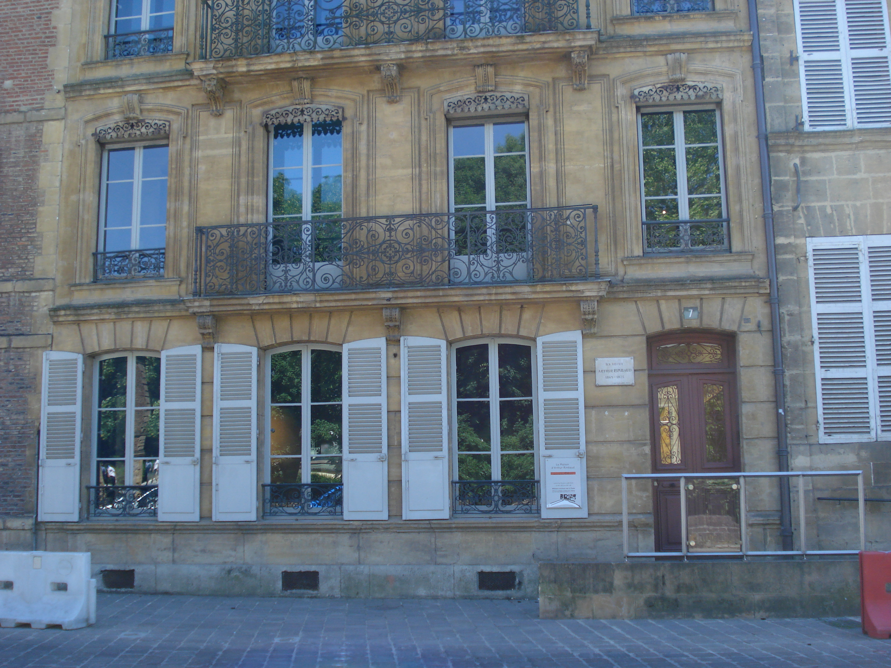 Maison de Rimbaud (Maison des Ailleurs), Charleville-Mézières